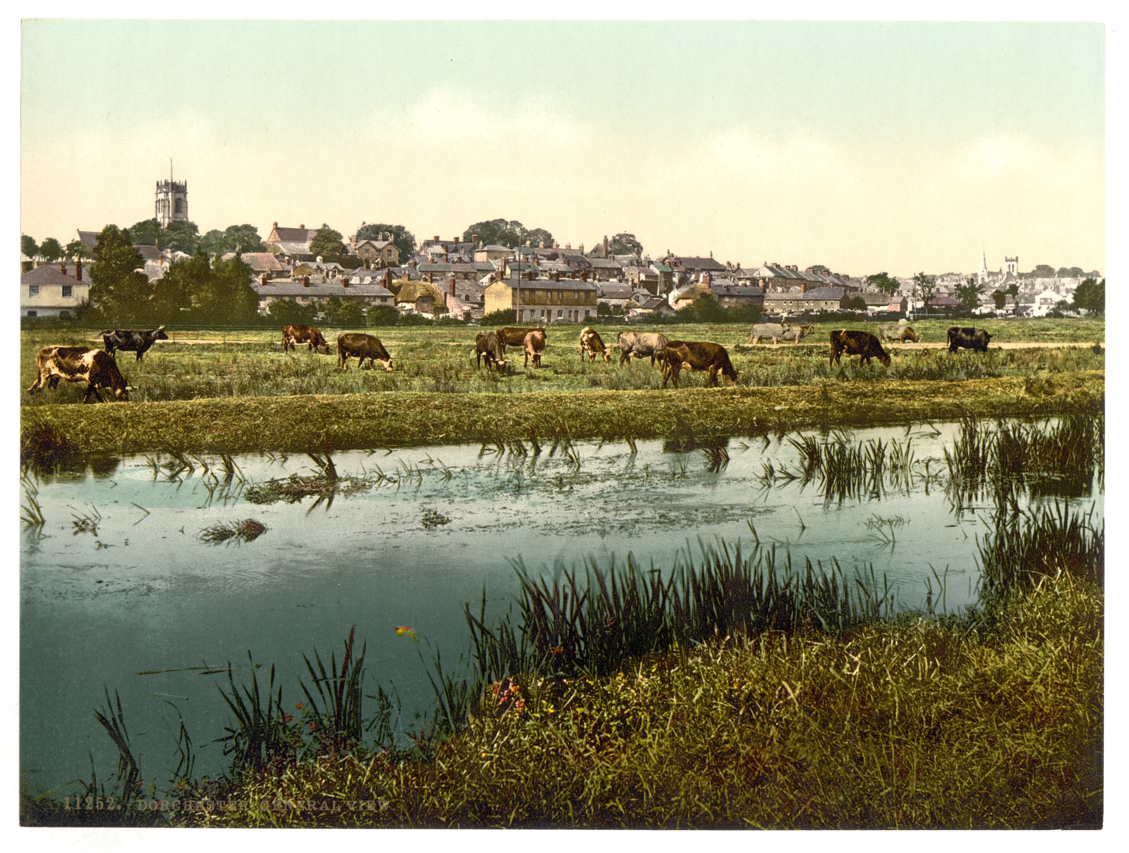 Forms part of: Views of the British Isles, in the Photochrom print collection.; More information about the Photochrom Print Collection is available at Title from the Detroit Publishing Co., Catalogue J-foreign section, Detroit, Mich. : Detroit Publishing Company, 1905.; Print no. "11252".